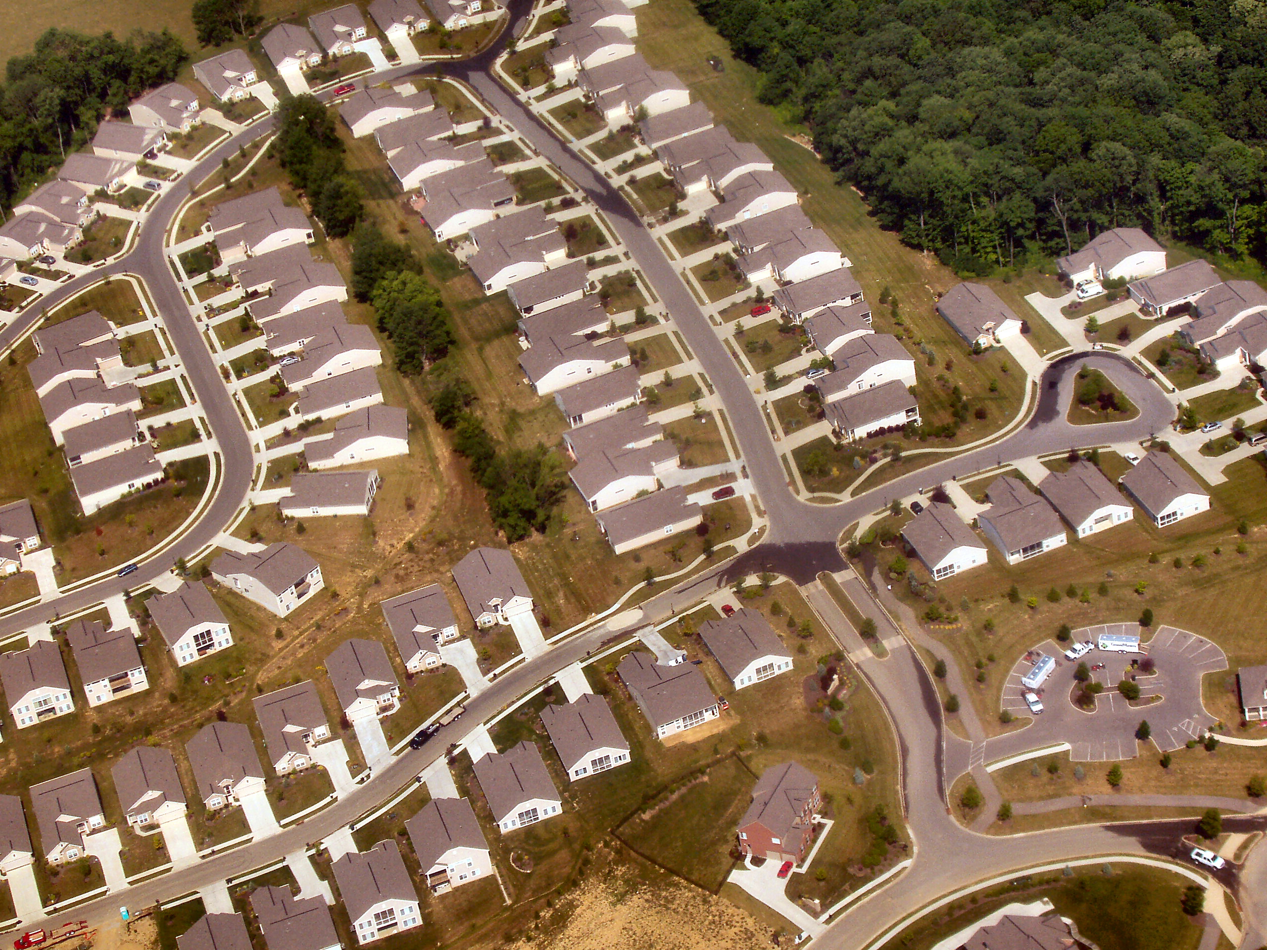 Tract housing near Union, Kentucky from the air.